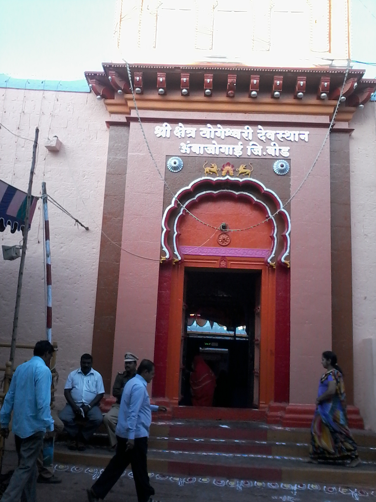 Actual photograph of Yogeshwari(amaba) Temple Entrance - Cultural Heritage